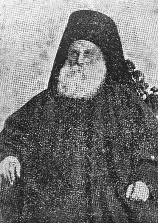 Ecumenical Patriarch Konstantinos V